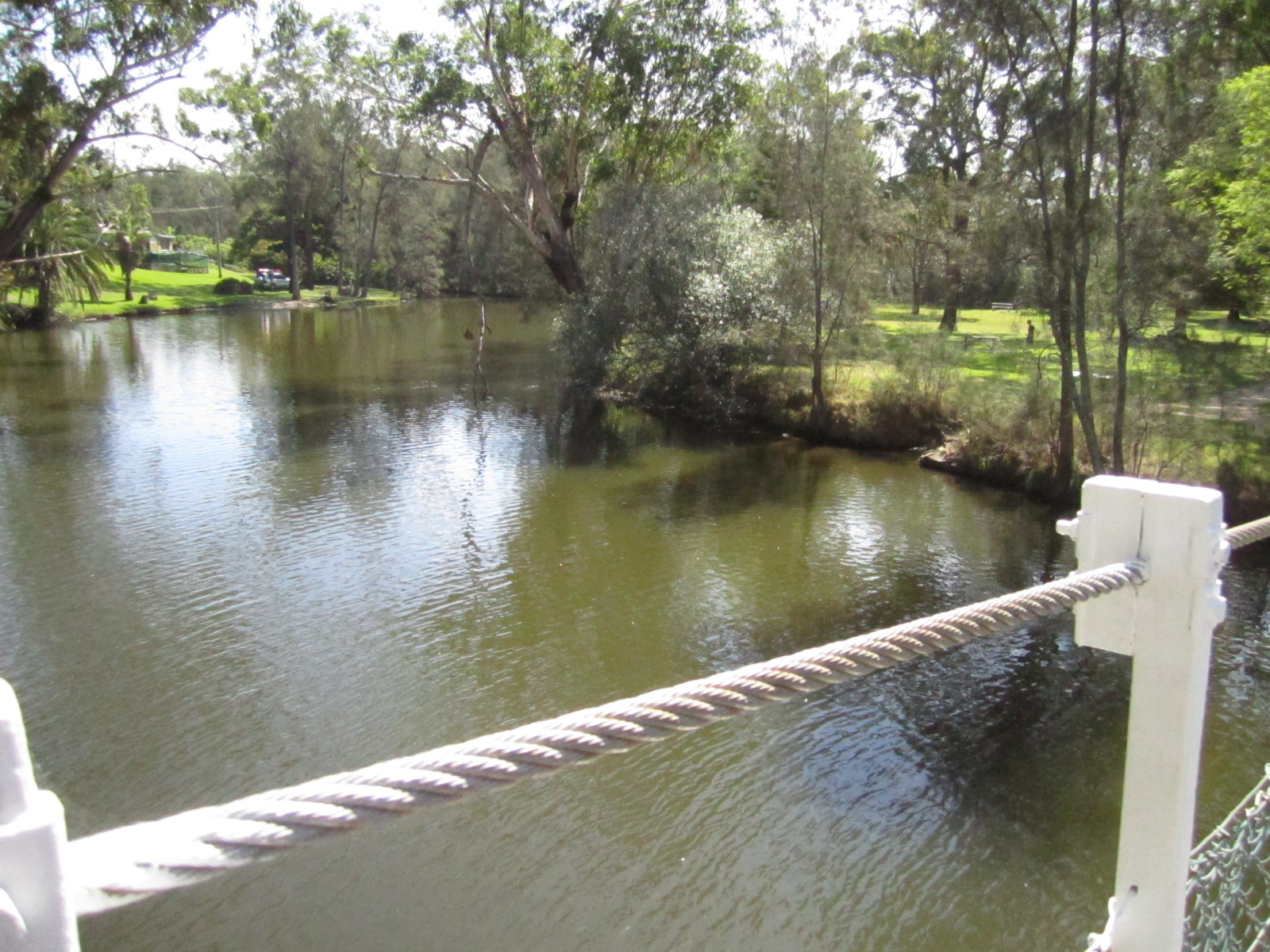 Swing bridge over Dora Creek behind Avondale College and Sanitarium factory